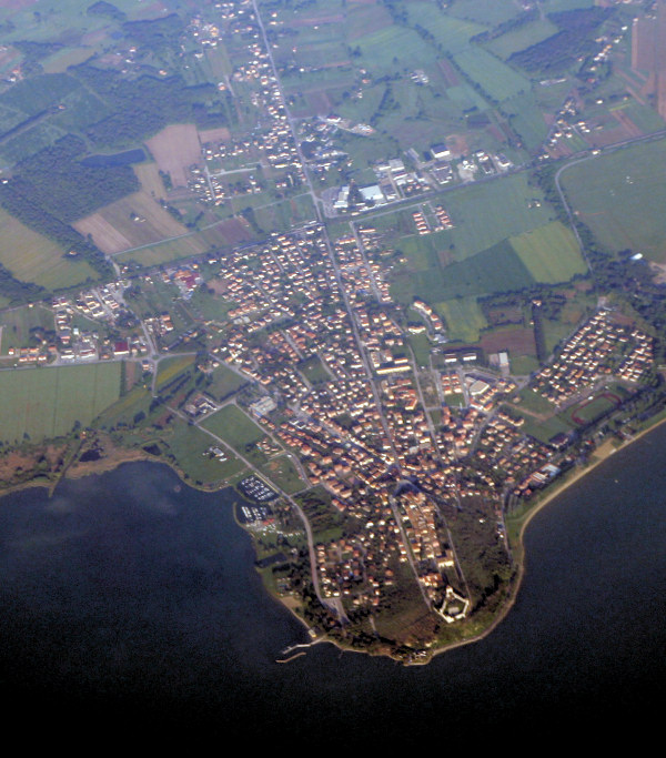 Castiglione Del Lago, Umbria, Italy.